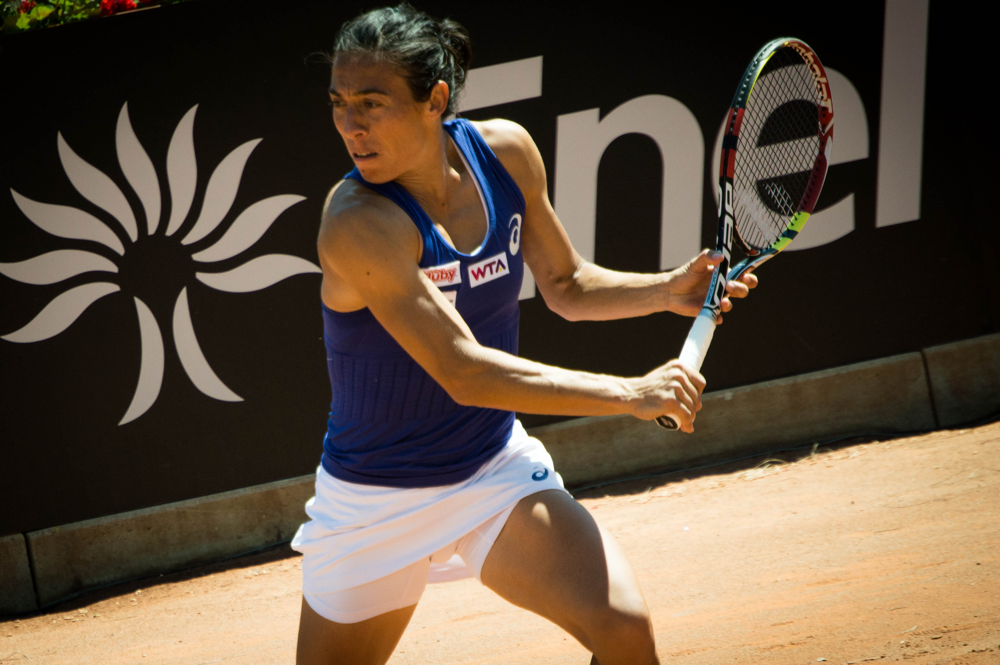 Francesca Schiavone in action at the 2014 Italian Open